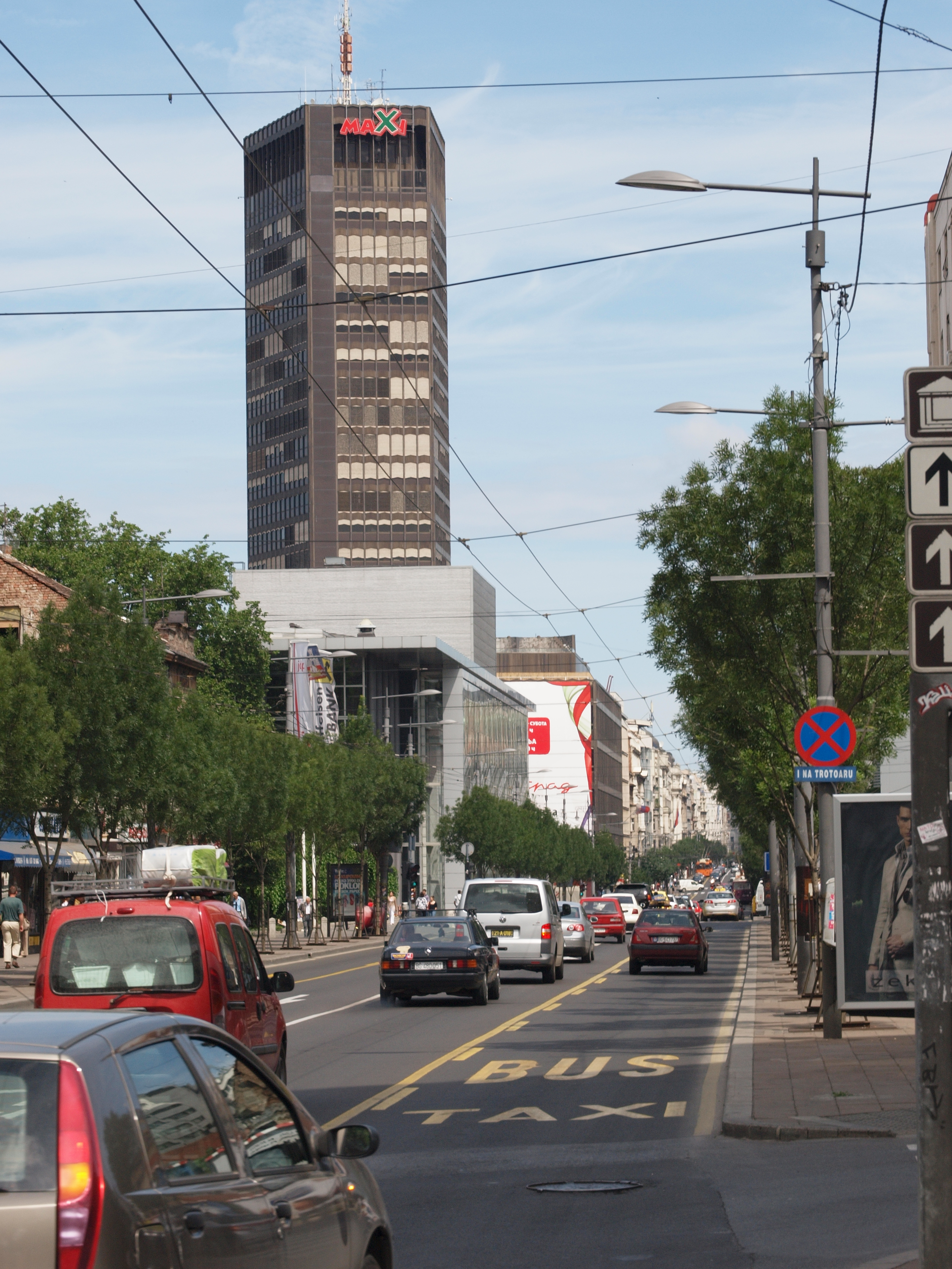 Ulica Kralja Milana, Belgrade Serbia